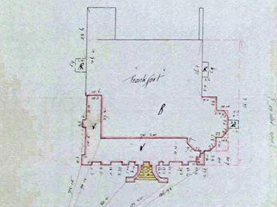 The “Blackwattle Sheets” - Public Work Department surveyors’ field books of the MWS & DB show “Frankfort” (now Stead House) as surveyed in January 1893 by surveyor D. C. White.